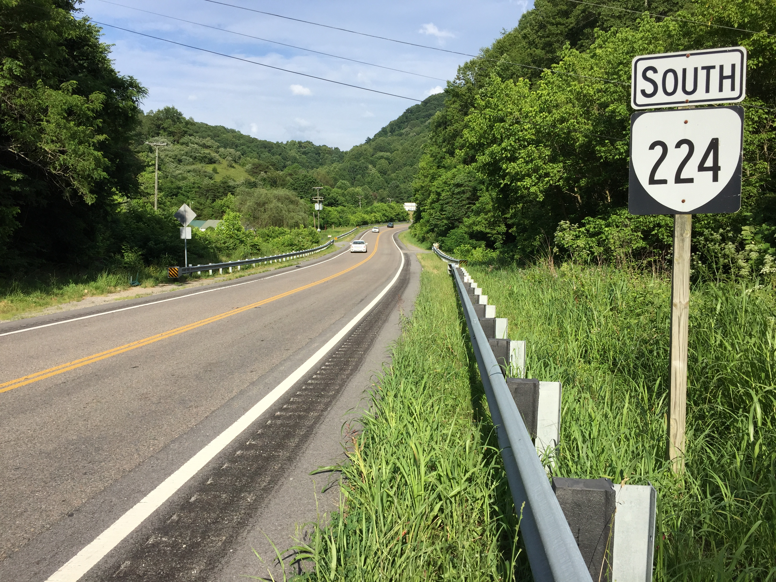 View south along Virginia State Route 224 (Wadlow Gap Road) just south of Cliffview Lane in Scott County, Virginia